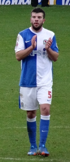 Paul Robinson and Grant Hanley